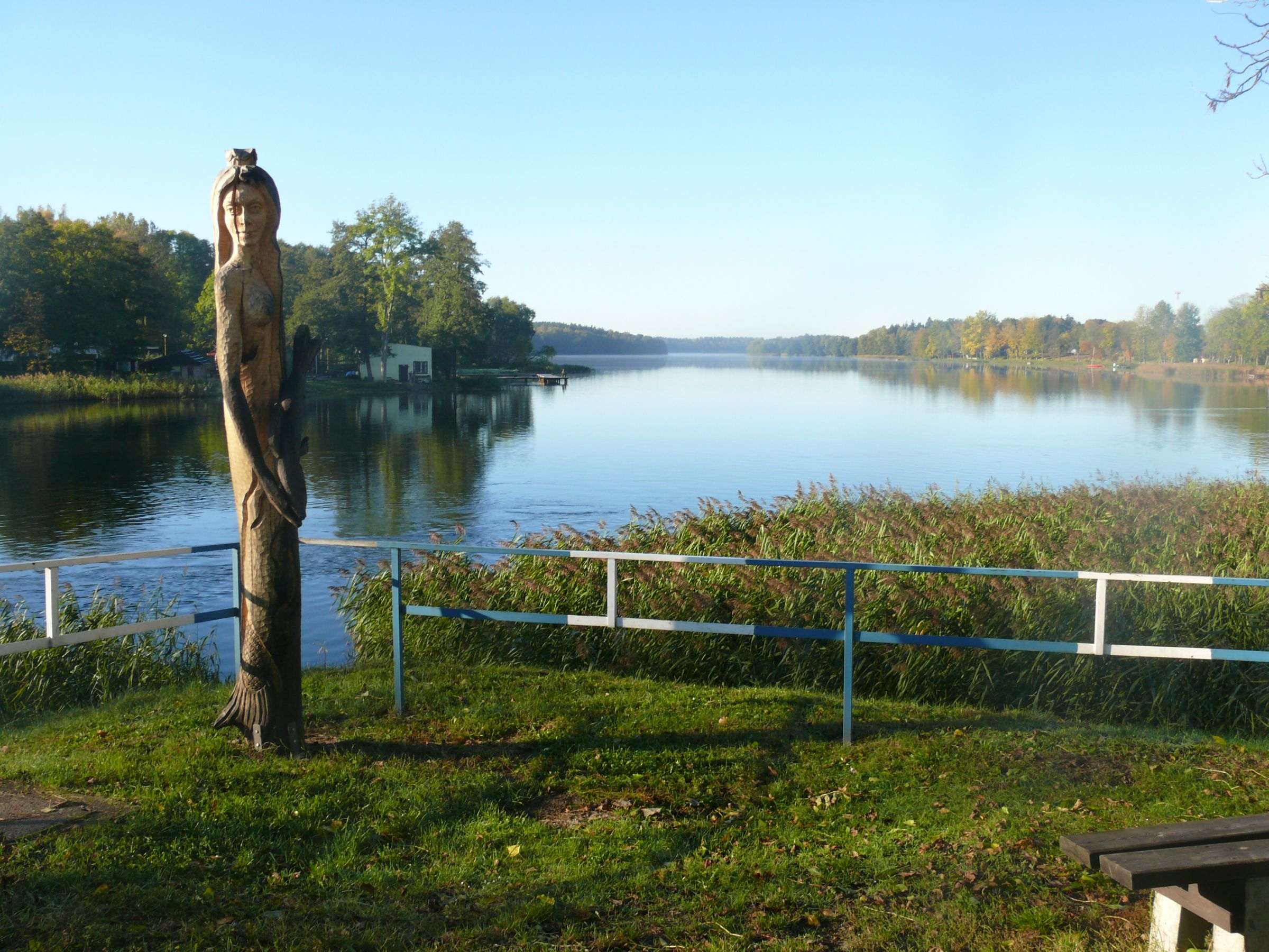 Poland, Dubie Lake